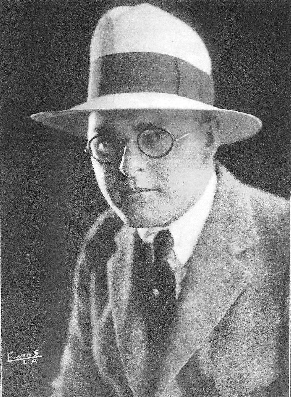 Photograph of film director Reginald Barker.